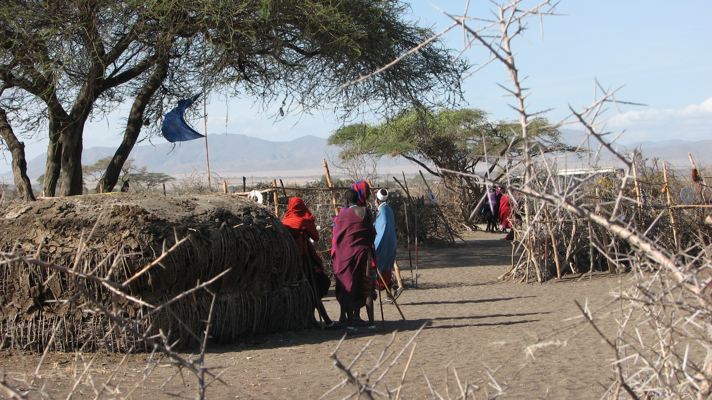 Steve Pastor eastern Serengeti, Tanzania October 2006